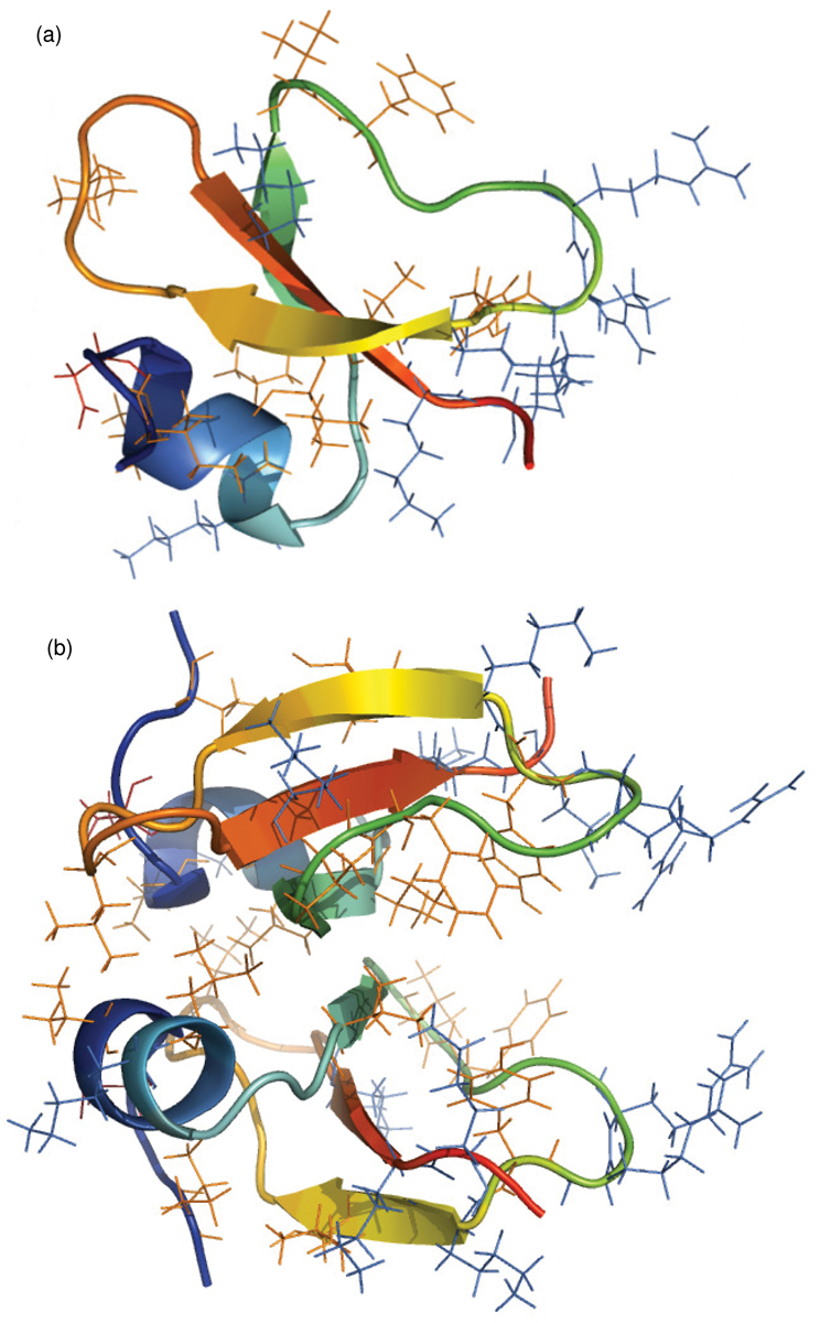 Monomeric and dimeric representations of HBD-2. The structure of HBD-2 monomer (a) and dimer (b), taken from the crystal structure 1FD3 [8] shown as cartoons in rainbow colouring from N- to C-terminal, with line representations of cationic residues in blue, hydrophobic residues in orange, and anionic residues in red.